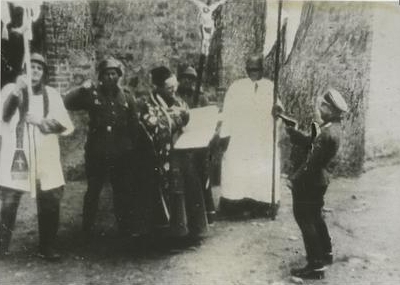 Germans making fun of religion and committing sacrilege. Sacrilege committed by the Germans.